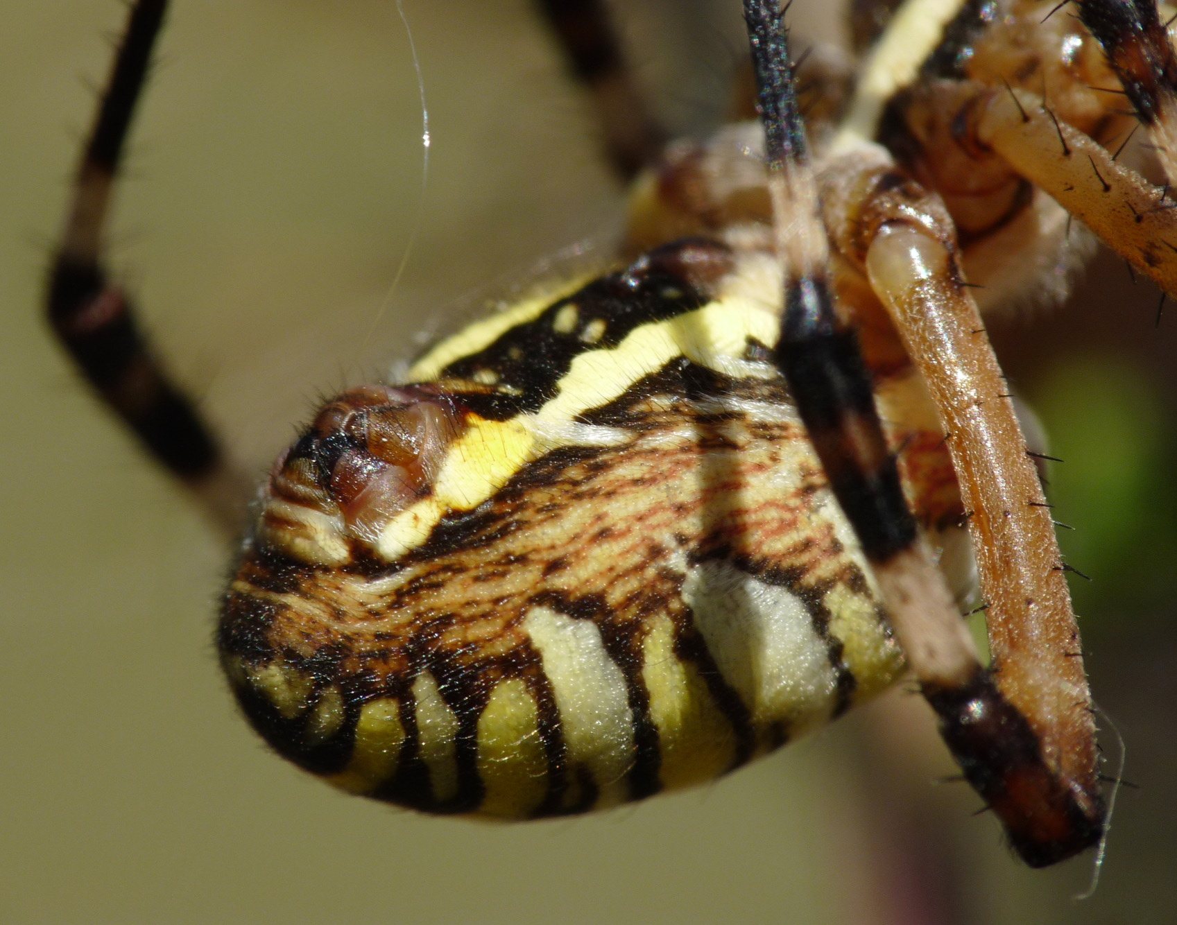 Argiope bruennichi (female), Oasi Bosco di Cornacchiaia, Pisa, Tuscany, Italy - detail with spinneret